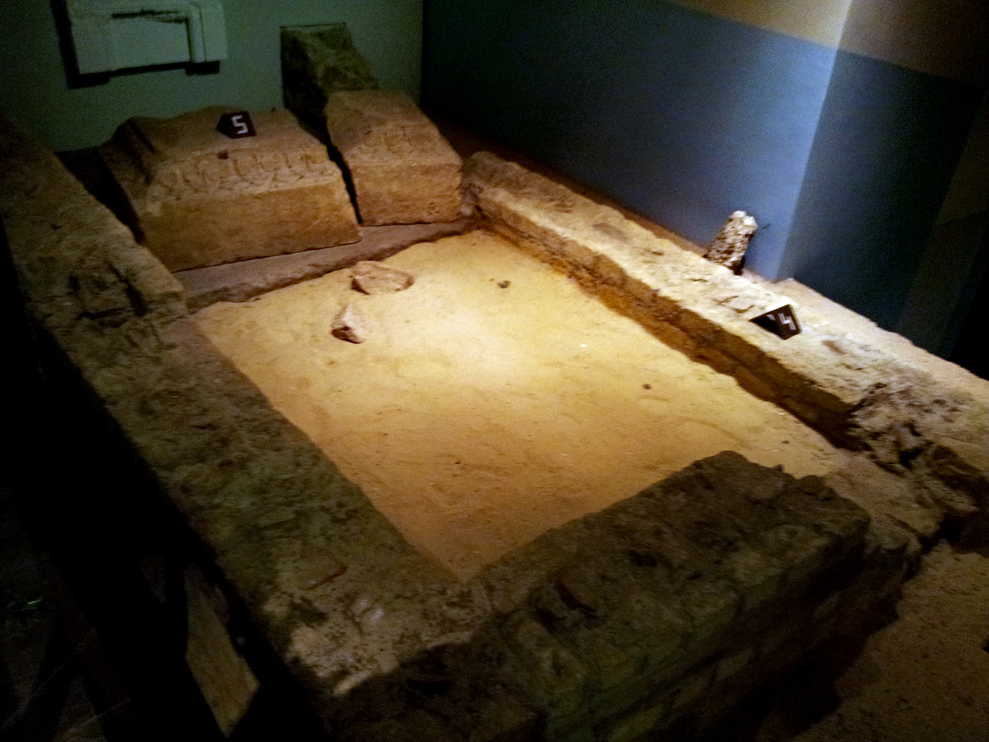 View of Museumkelder Derlon (Hotel Derlon Museum Basement) in Maastricht, the Netherlands. The museum features the 1983 archaeological excavations of an ancient Roman shrine from the 2nd century AD. The shrine stood along the main road from Tongres via Maastricht to Cologne, close to the bridge over the river Meuse. It consisted of an enclosed courtyard with a Jupiter column and a number of smaller monuments. The base of the Jupiter column, broken in two pieces, is in situ (5). Several objects found on the site are exhibited in glass cases. The site also contains remnants of the early 4th-century castellum wall and western gate.